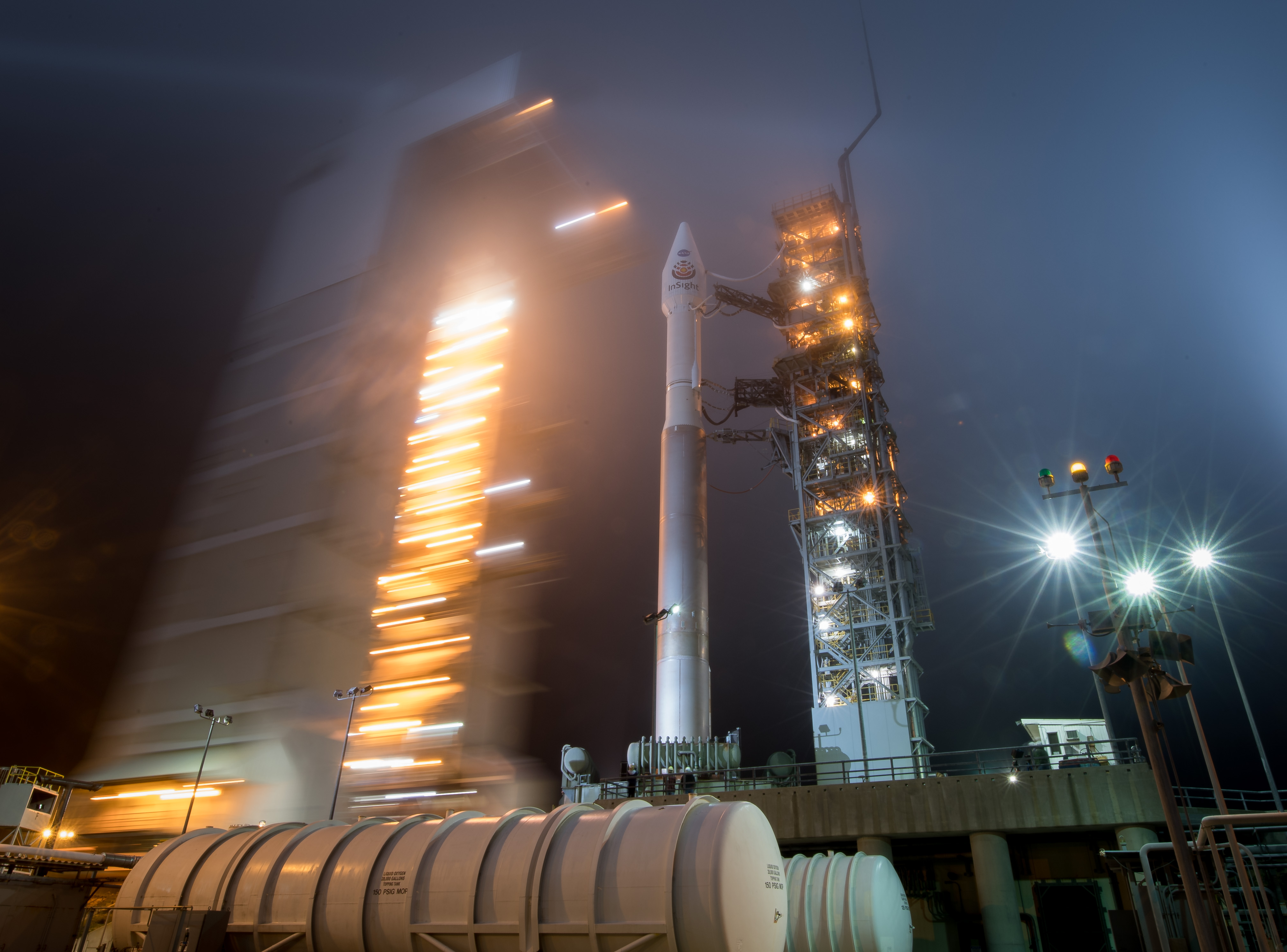 The mobile service tower at Vandenberg AFB Space Launch Complex 3 is rolled back to reveal the United Launch Alliance's Atlas-V rocket with the NASA InSight spacecraft onboard.